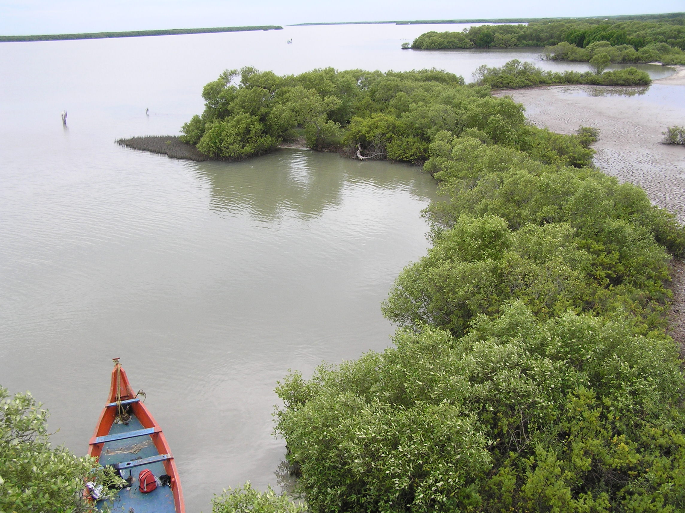 Muthupet lagoon from watch tower